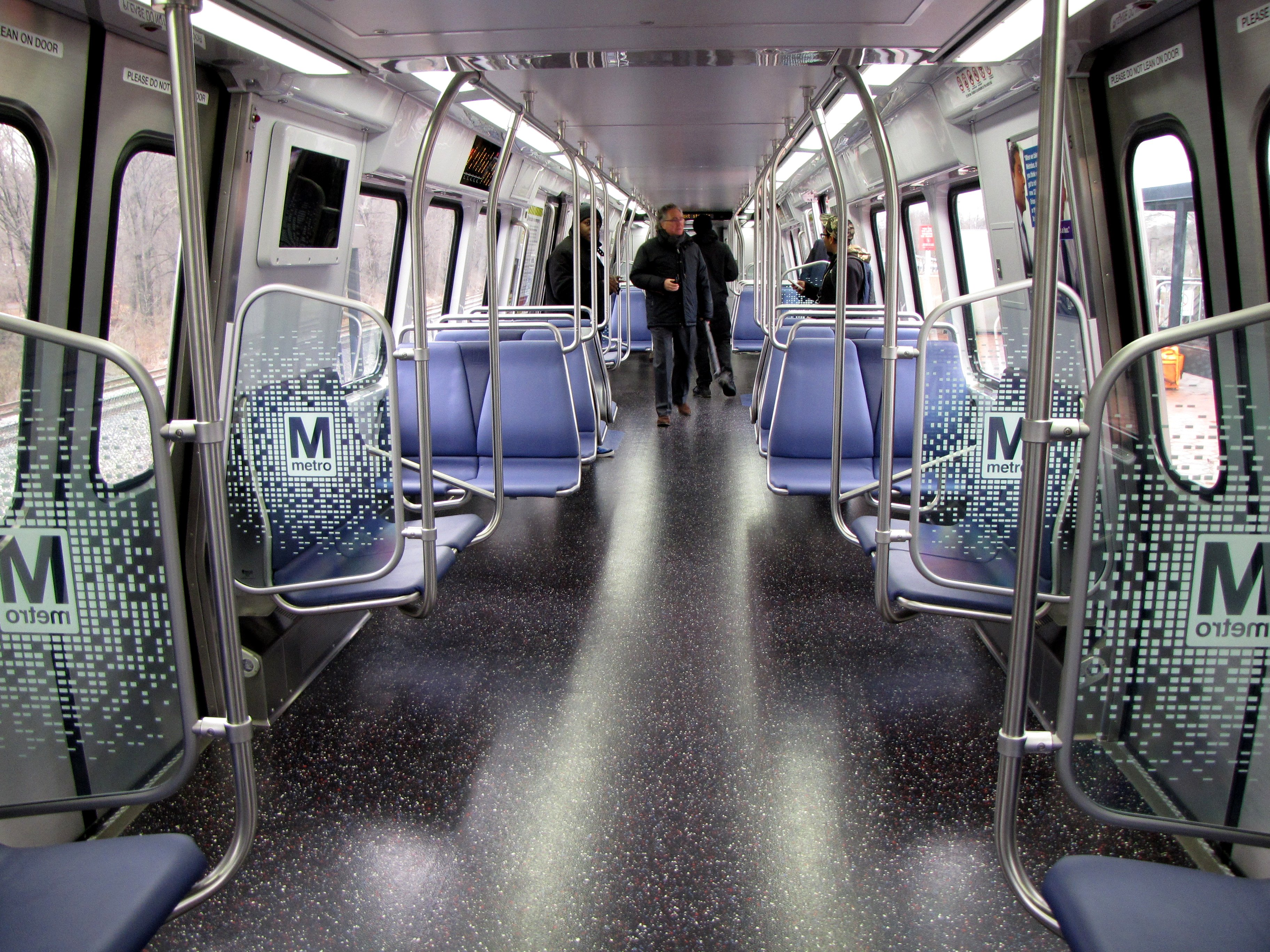 Debut of the Washington Metro's new 7000-Series railcars on January 6, 2014 at Greenbelt station in Prince George's County, Maryland. This four-car set, numbered 7004-7007, will undergo acceptance testing for several months before entering revenue service. This photo shows car 7006 at approximately the midpoint of the car, facing the coupler end.